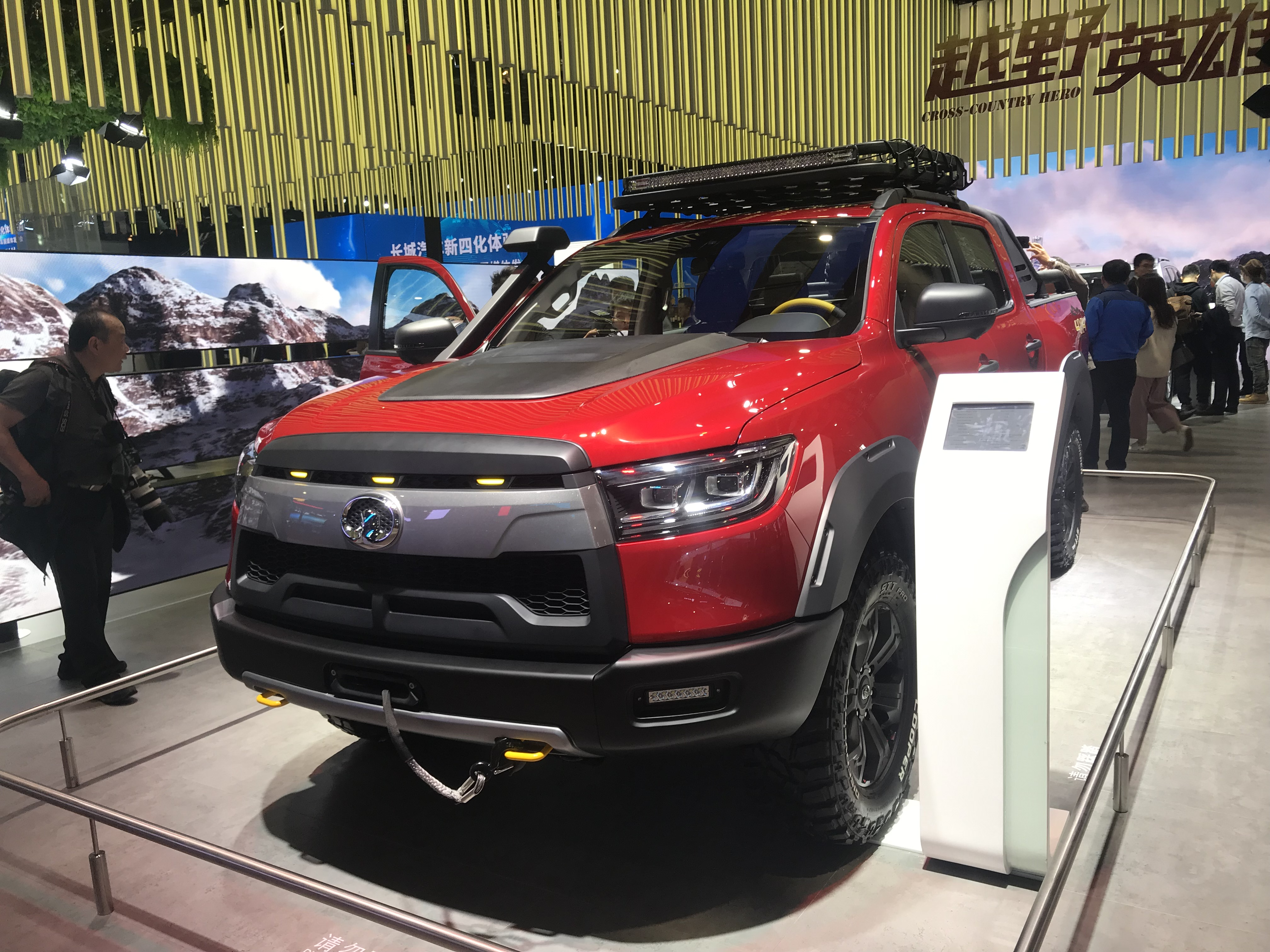 Great Wall Pao Off-road version